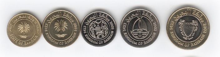 Bahraini coins - obverse